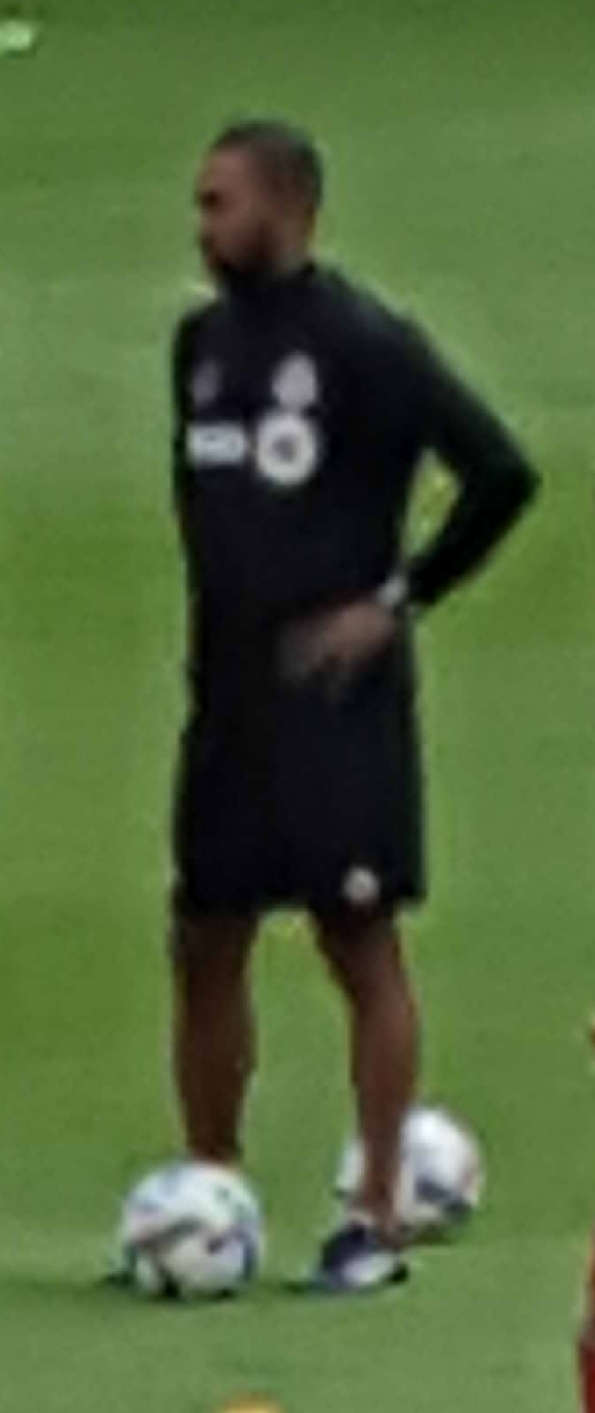 American soccer player and manager Robin Fraser in a before a game against the Colorado Rapids for Toronto FC on July 22, 2017